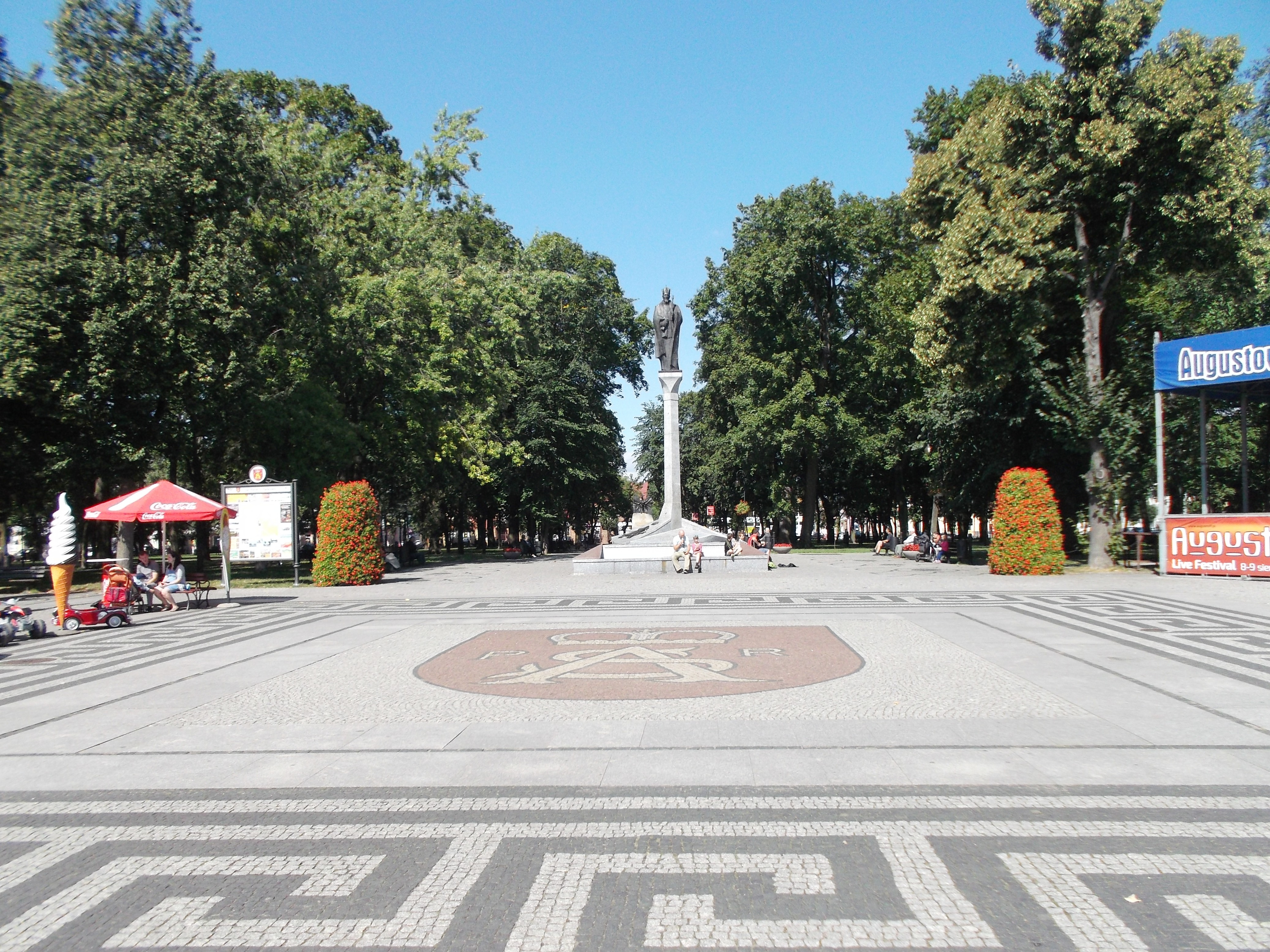 Municipal Park and Sigismund II August Monument in Augustów, Poland.